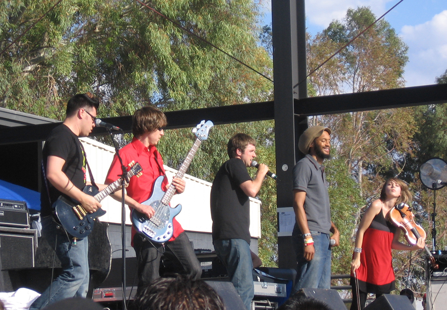 The Flobots played at KFMA Day in Tucson, Arizona on May 16th, 2008, along with other bands such as Apocolyptica, Scars on Broadway and Metallica.